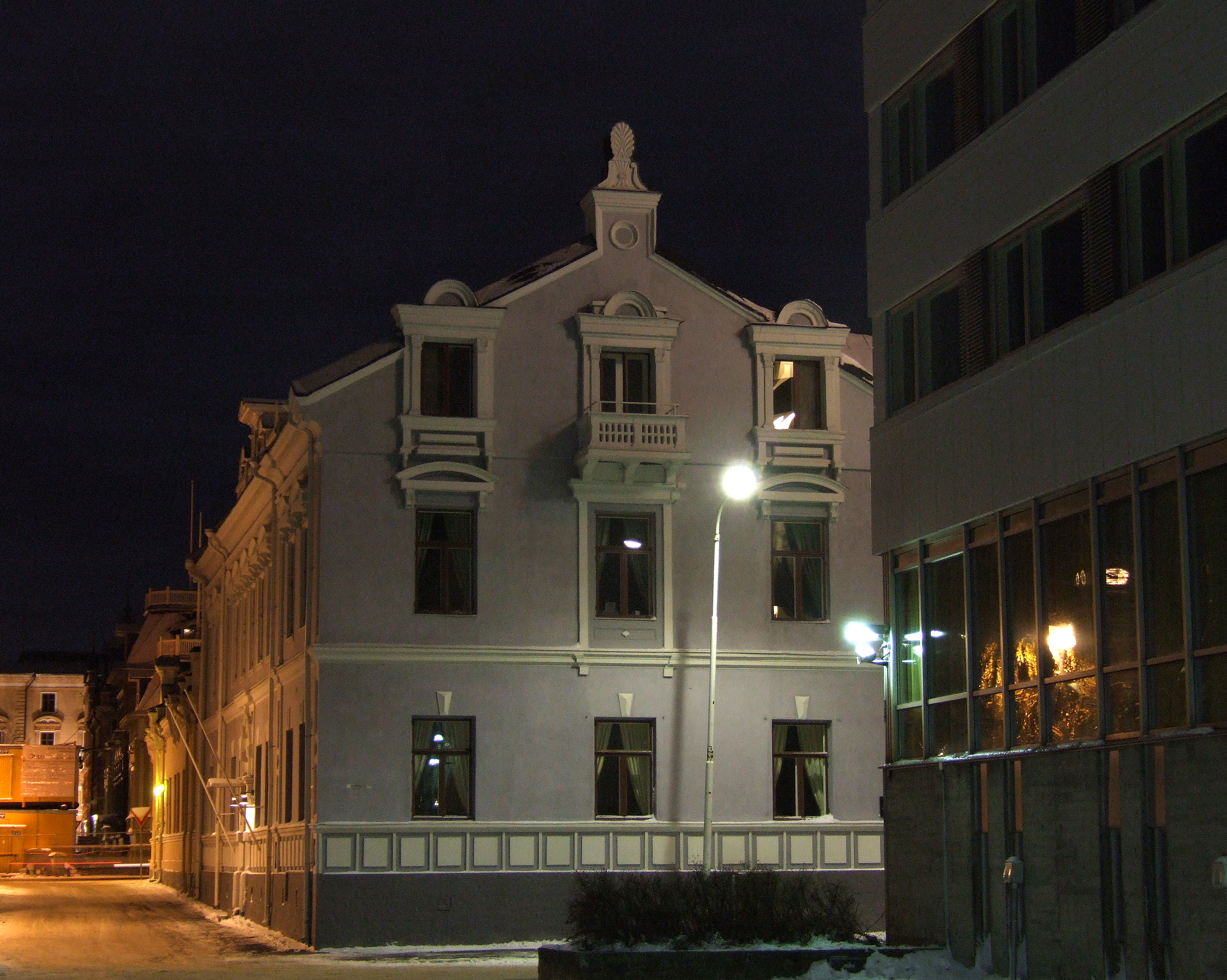 The Oulu Diocese chapter house at night in Oulu, Finland. The building has been desgined by architect Johan Lybeck and it was completed in 1884.